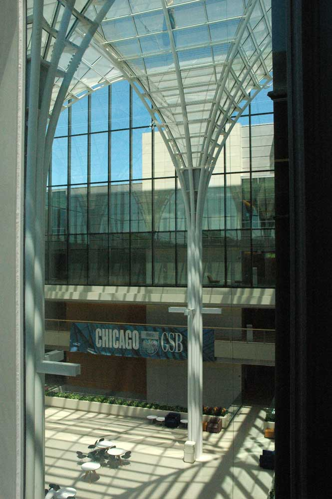 The University of Chicago Graduate School of Business. Photo by Chuck Szmurlo taken June 16, 2005 with a Nikon D70 and a Nikon 18-70 lens